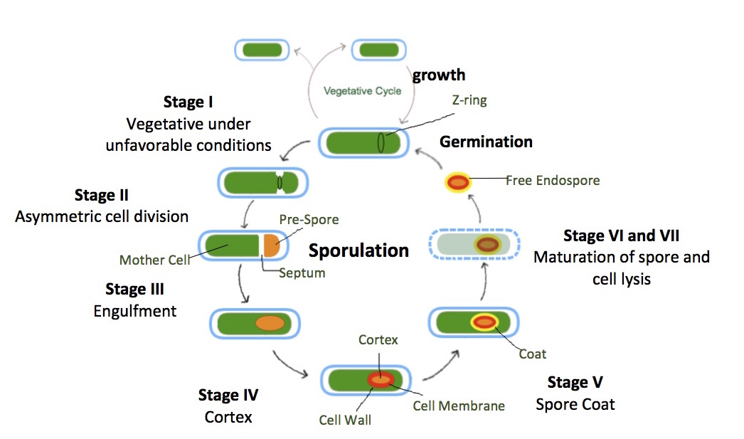 Figure Caption: The Bacillus subtilis (Stage I) in vegetative growth is in unfavorable conditions, so it begins the process of sporulation. Examples of unfavorable conditions are an environment that lacks the required nutrients, is too hot, or too cold. Asymmetric (unequal) division occurs from the tightening of the Z-ring (Stage II). The Z-ring is multiple FtsZ proteins assembled into a ring that depolymerizes to cause an inward constriction, which will form the septum that results in two daughter cells. The mother cell, which is the bigger of the two daughter cells, engulfs the pre-spore (Stage III). Next, the cortex (Stage IV) and the coat (Stage V) form around the spore. The cortex is made of peptidoglycan and the coat is composed of several layers of specific proteins. Once the spore is mature, the cell lyses (Stage VI and VII). Thus, a free endospore is formed that can withstand harsh environments. This endospore can later germinate into a vegetative cell. Vegetative cycle occurs in favorable conditions, such as nutrient abundance and a moderate temperature. This is a cycle of medial division and growth creating more vegetative Bacillus subtilis. [1]